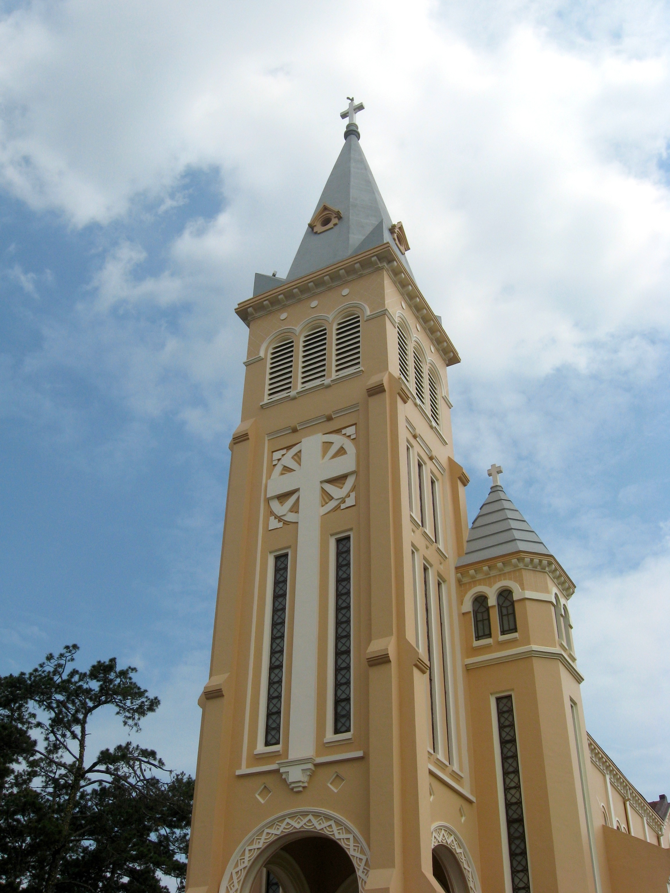 Cathedral of Da Lat